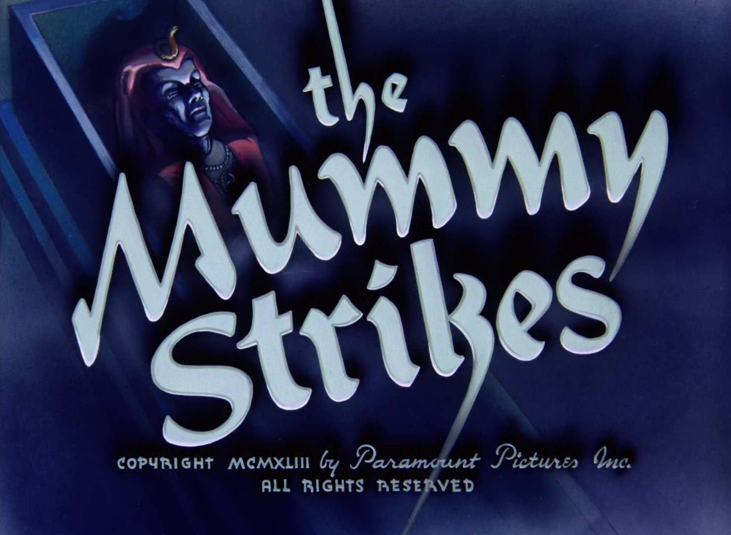 Title screen of the animated short The Mummy Strikes.